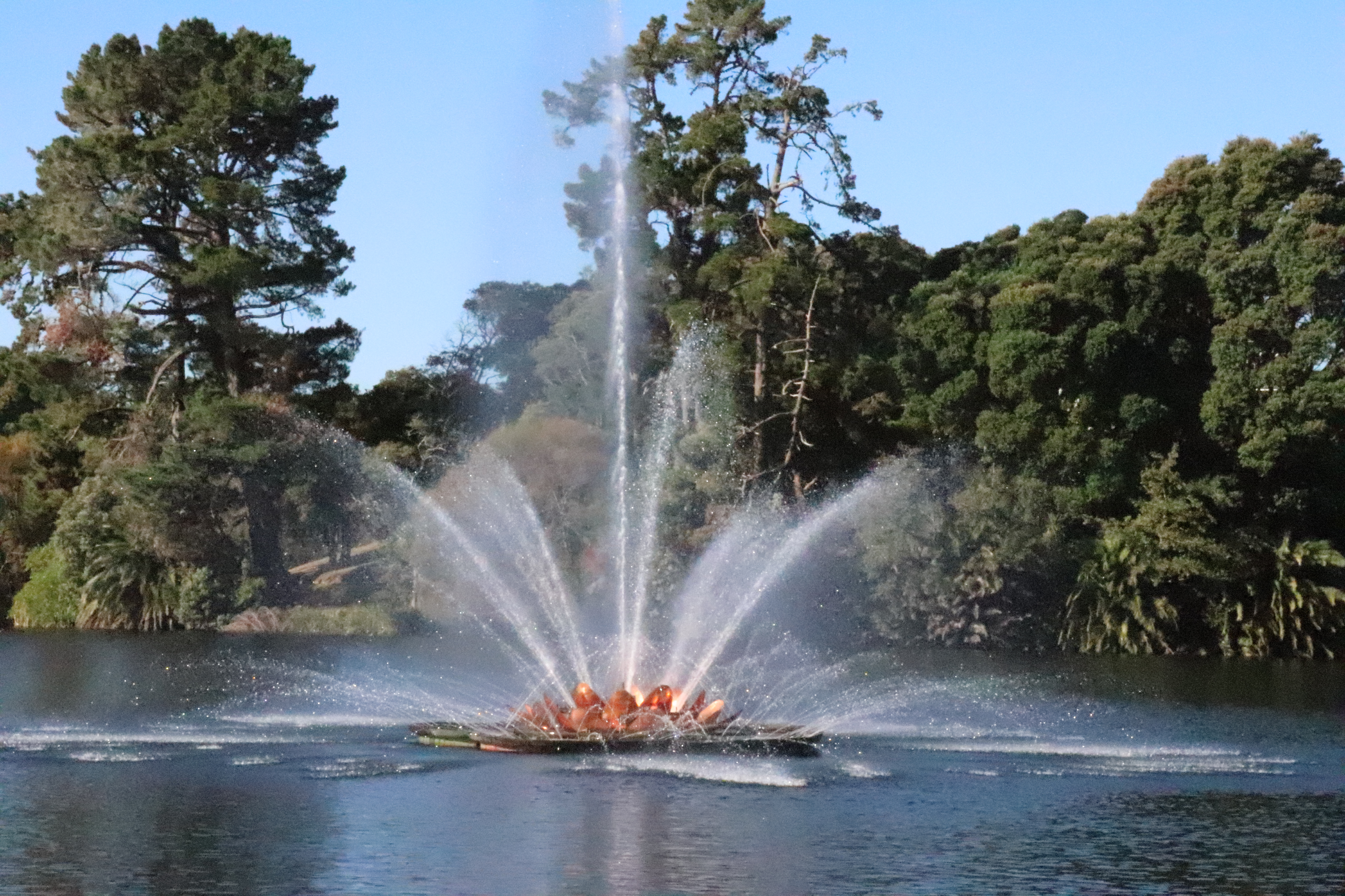 The Higginbottom Fountain at Virginia Lake Reserve, Whanganui. Fountain is active, but unlit, as the fountain is only lit at night time. Trees in the background.